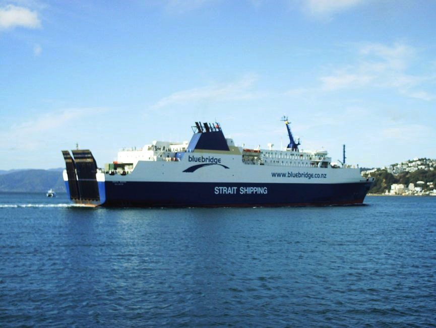 Photo of the Santa Regina, a ferry on Cook Strait, New Zealand IMO Number: 8314562 MMSI Number: 512036000 Callsign: ZMSR Length: 136 m Beam: 22 m